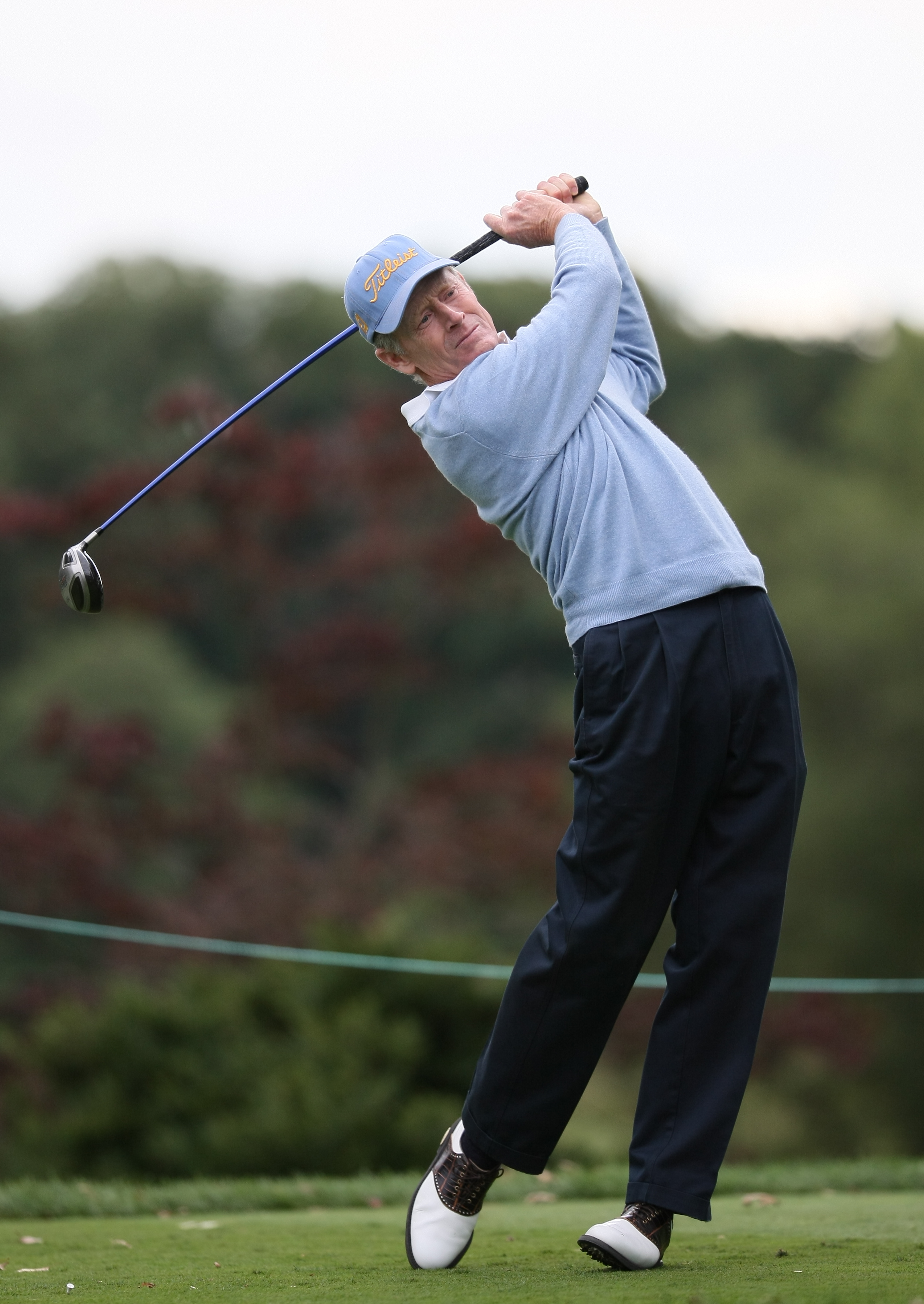 Mike Reid at the Constellation Energy Senior Players Championship Pro-Am held at Baltimore Country Club/Five Farms (East Course) on September 30, 2009 in Timonium, Maryland